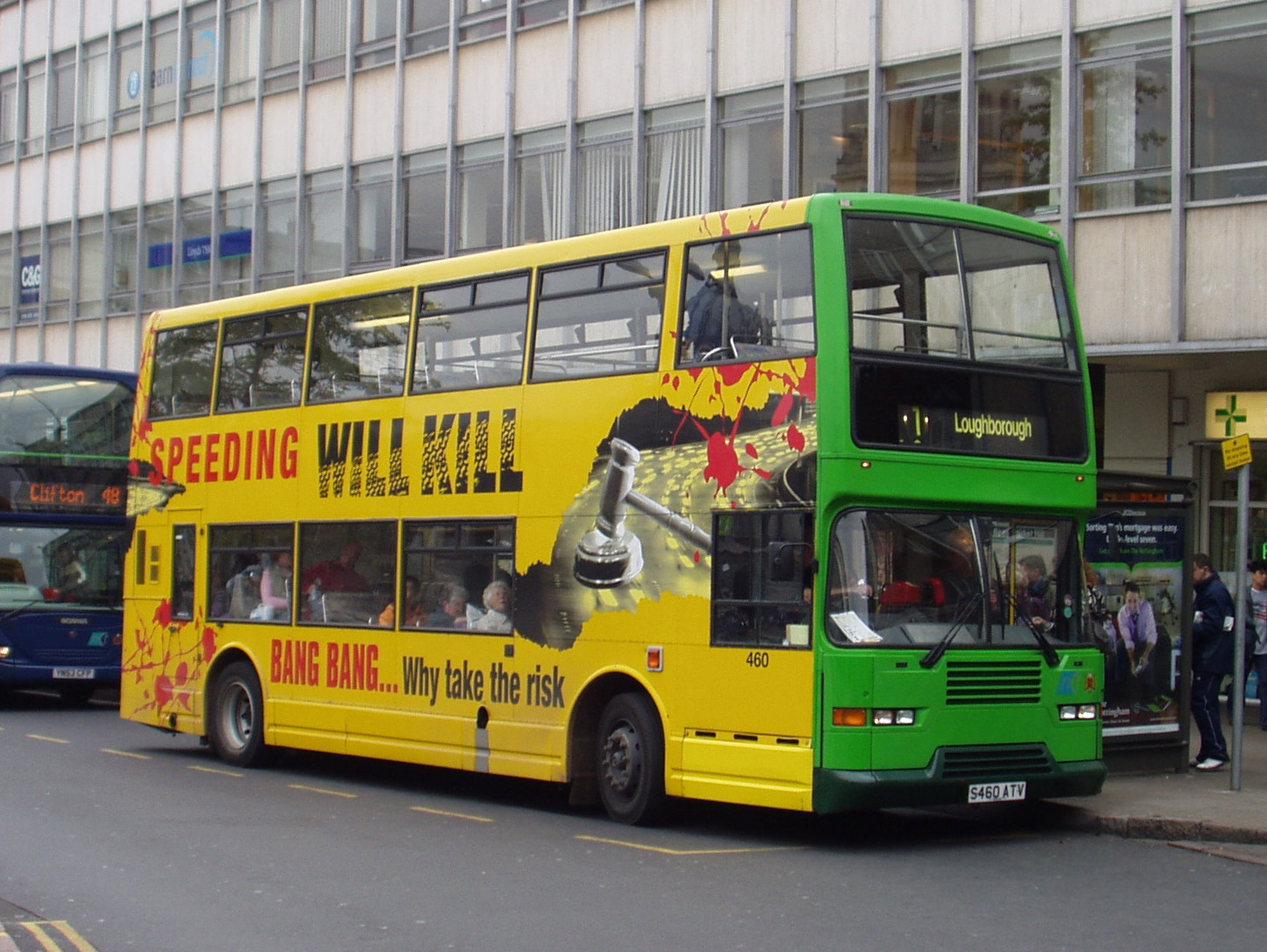 A Nottingham City Transport bus on route 1 to Loughborough. It is a Volvo Olympian with East Lancs Pyoneer body, registration mark S460 ATV, fleet number 460.